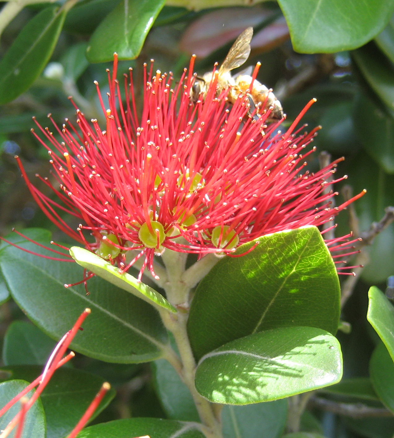 Metrosideros kermadecensis, endemic to the Kermadec Islands, in flower at Auckland, New Zealand.